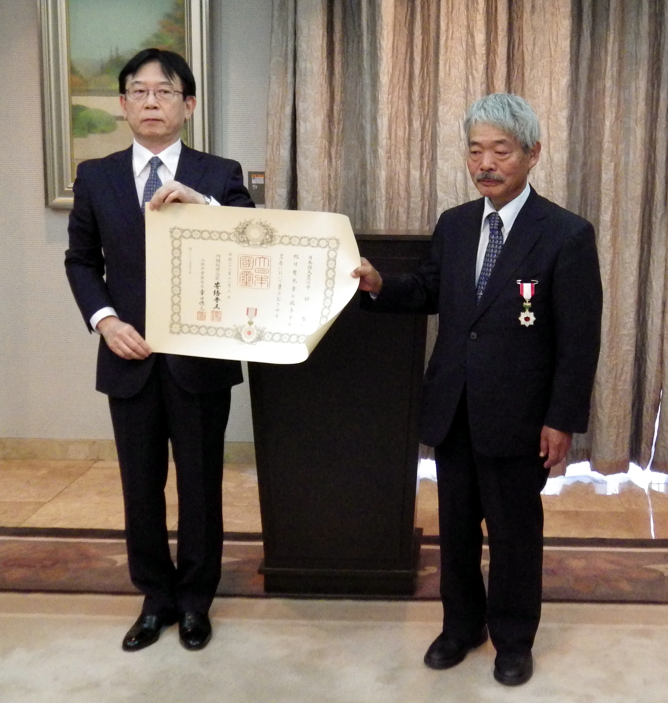 Mitsuji Suzuka, Ambassador to Afghanistan, conducted an investiture ceremony at the Ambassador's Official Residence in Kabul on November 17, 2016. Tetsu Nakamura, Executive Director of the Peace Japan Medical Services, was given the Order of the Rising Sun, Gold and Silver Rays from Suzuka.